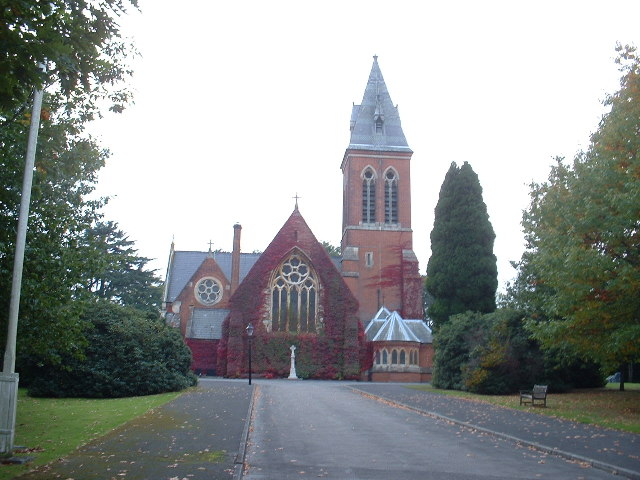 The Garrison Church of All Saints, Aldershot. On Old Contemptibles Row